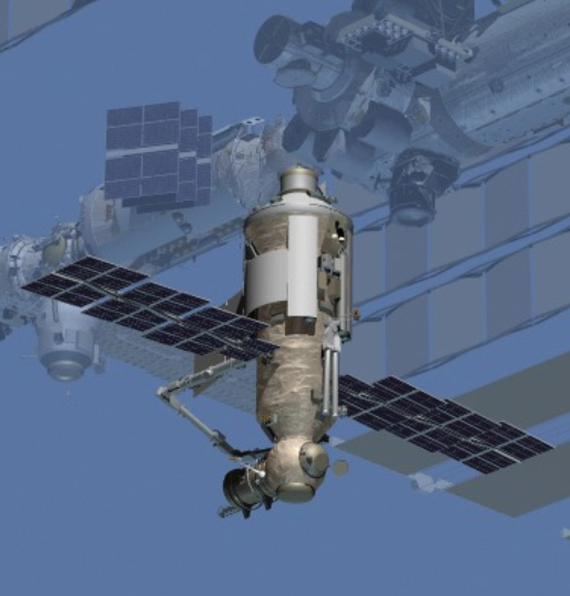 Computer-generated artist's rendering of the International Space Station after assembly flight 3R, when a Russian Proton rocket delivers the Multipurpose Laboratory Module (MLM) along with the European Robotic Arm (ERA).